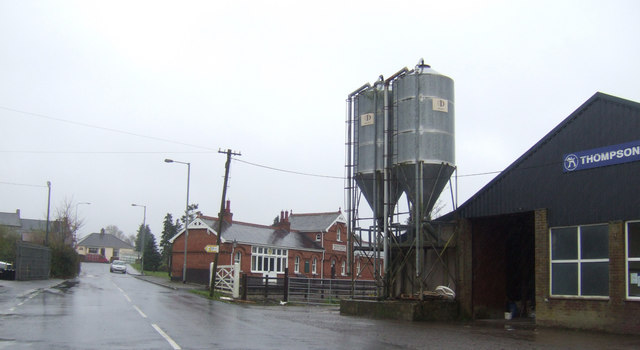 Brookeborough station The old railway station is still in evidence next to an agricultural feed supplier. Note the level crossing gate still exists.